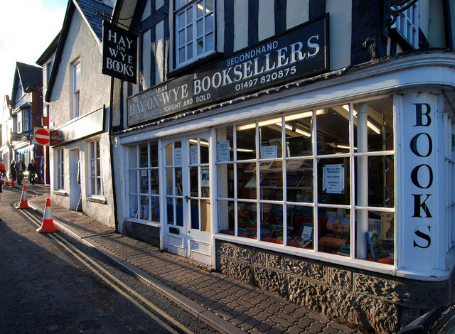 Hay on Wye Booksellers